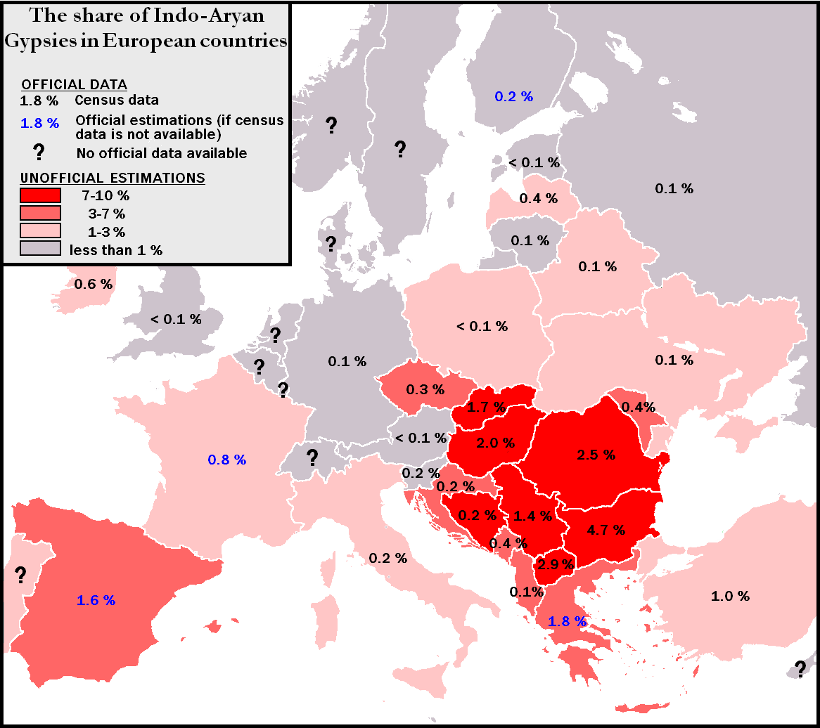 The sharing of Gypsies with Indo-Aryan origins (Roma people, Ruska Roma, Gitanos, Romanoar, Romnichal, Sinti, Kalderash, Egyptians, Ashkali, Boyash , Erlides/Yerli, Bohemians, Lovari, Romungro, Ursari, Gurbeti, Bosha, Garachi, Domani, Xoraxane, Manush, Machvaya, Rusurja, Servy, Lyuli etc) in Europe.